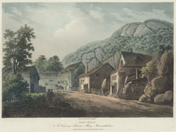 A view of a small iron-works showing waterwheels and men on horseback outside the buildings.